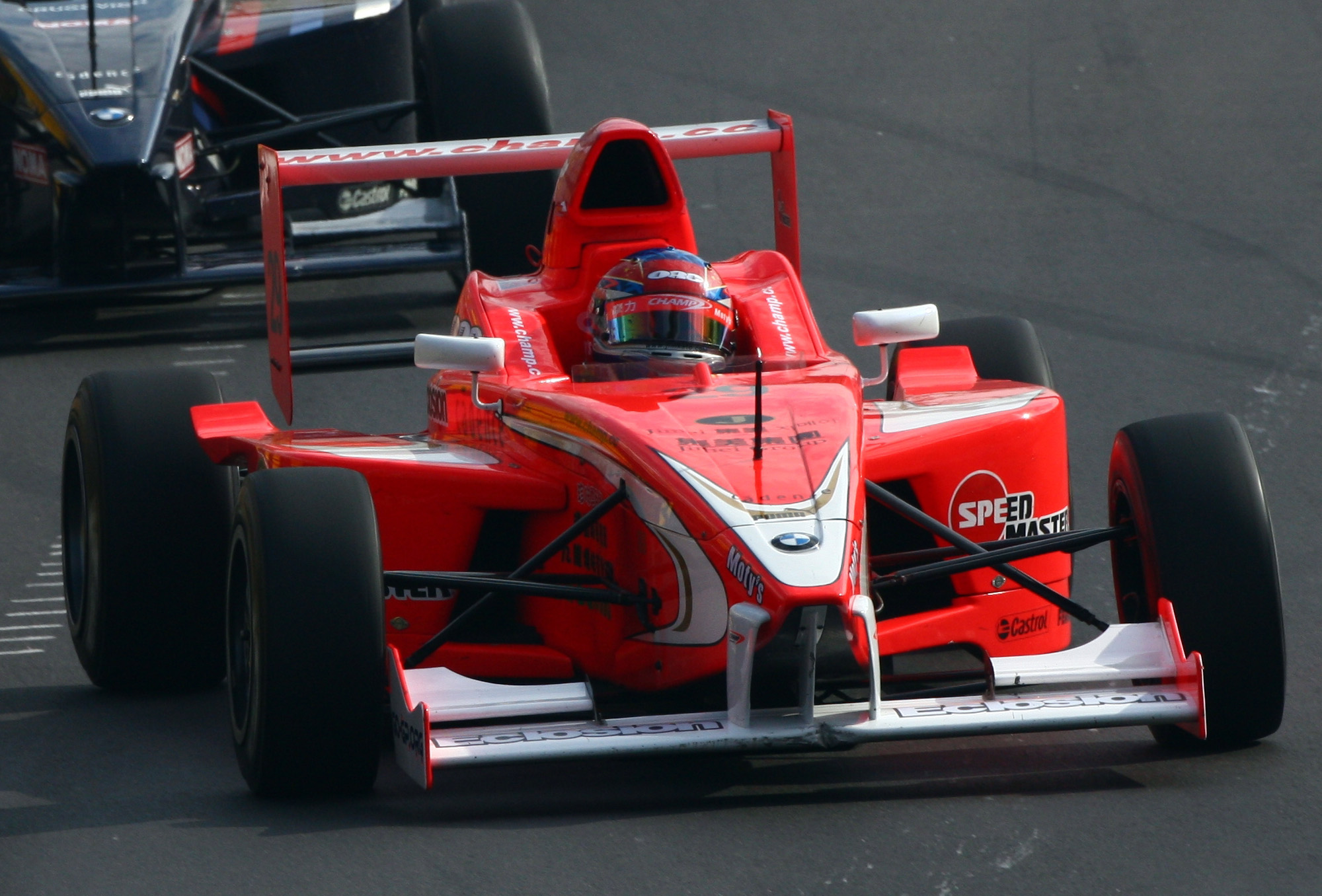 Jim Ka To driving a Formula BMW for Champ Motorsports in the 2009 Macau Grand Prix.